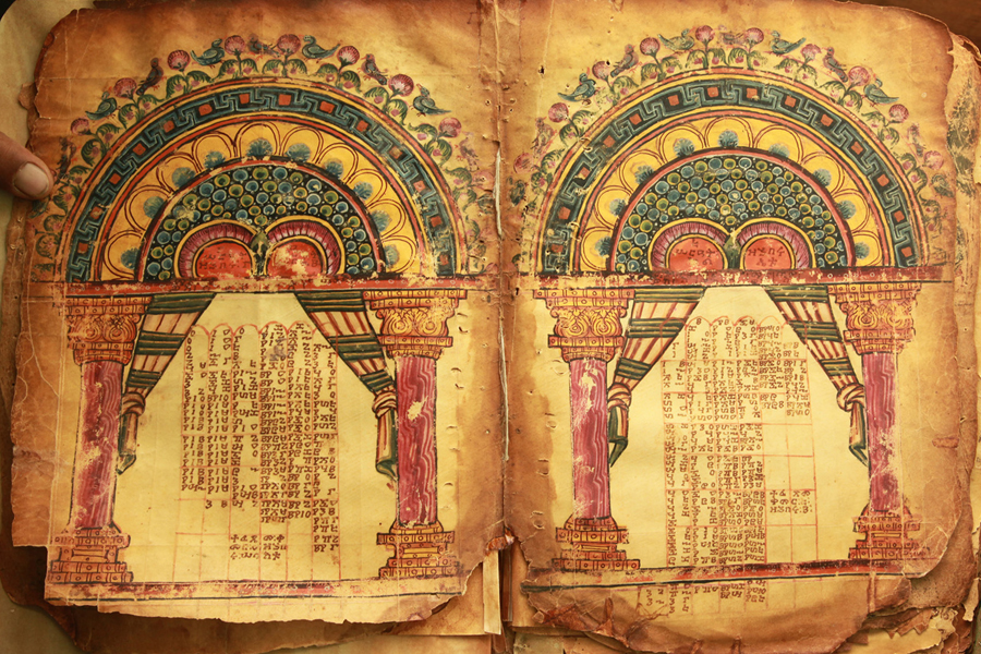 Illumination from the Garima Gospels